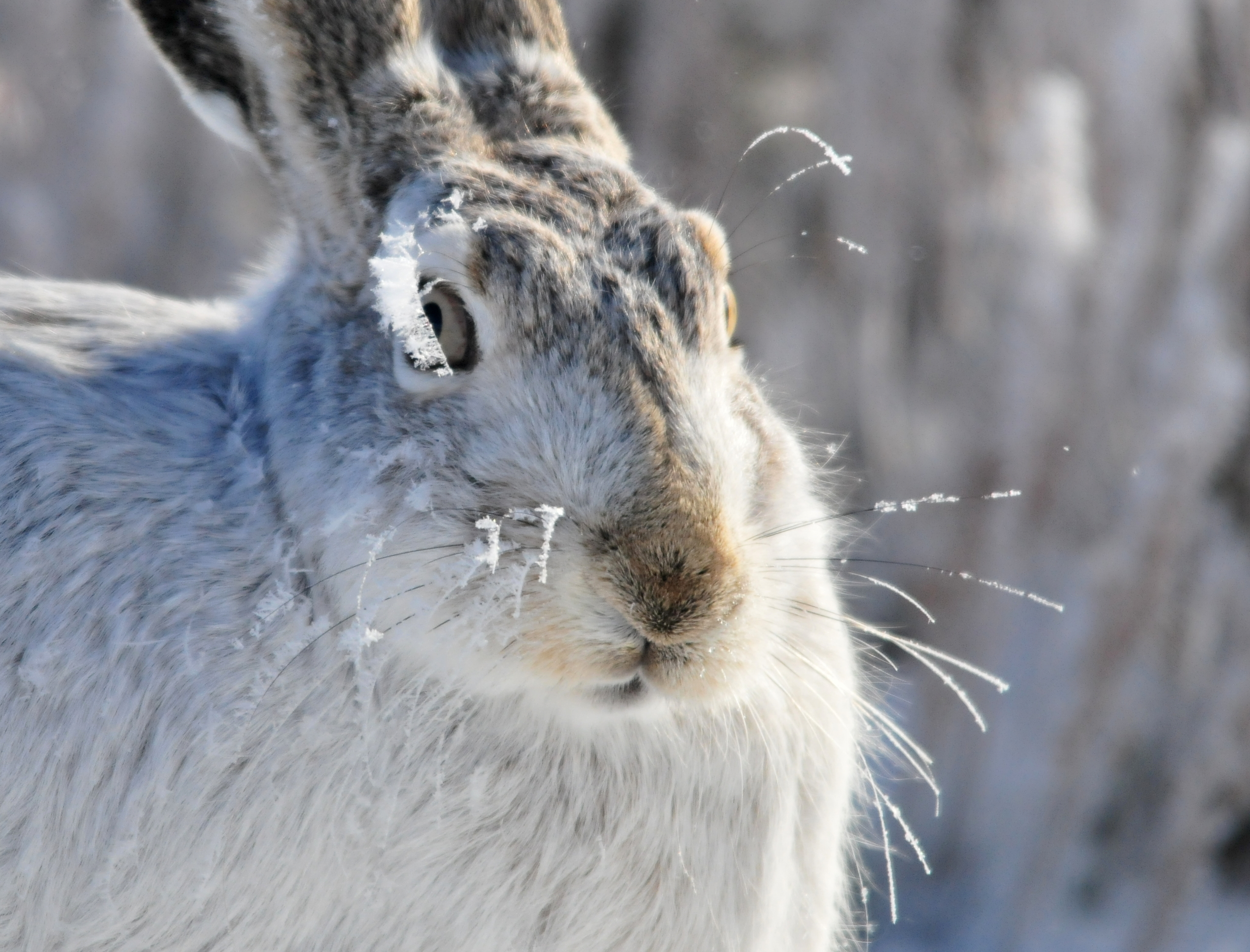 Here's a new one, hoar frost on a white-tailed jackrabbit at Seedskadee NWR. Photo: Tom Koerner/USFWS